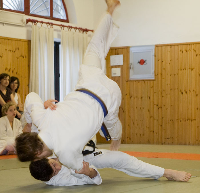 Uki waza Judo throw in gake stage